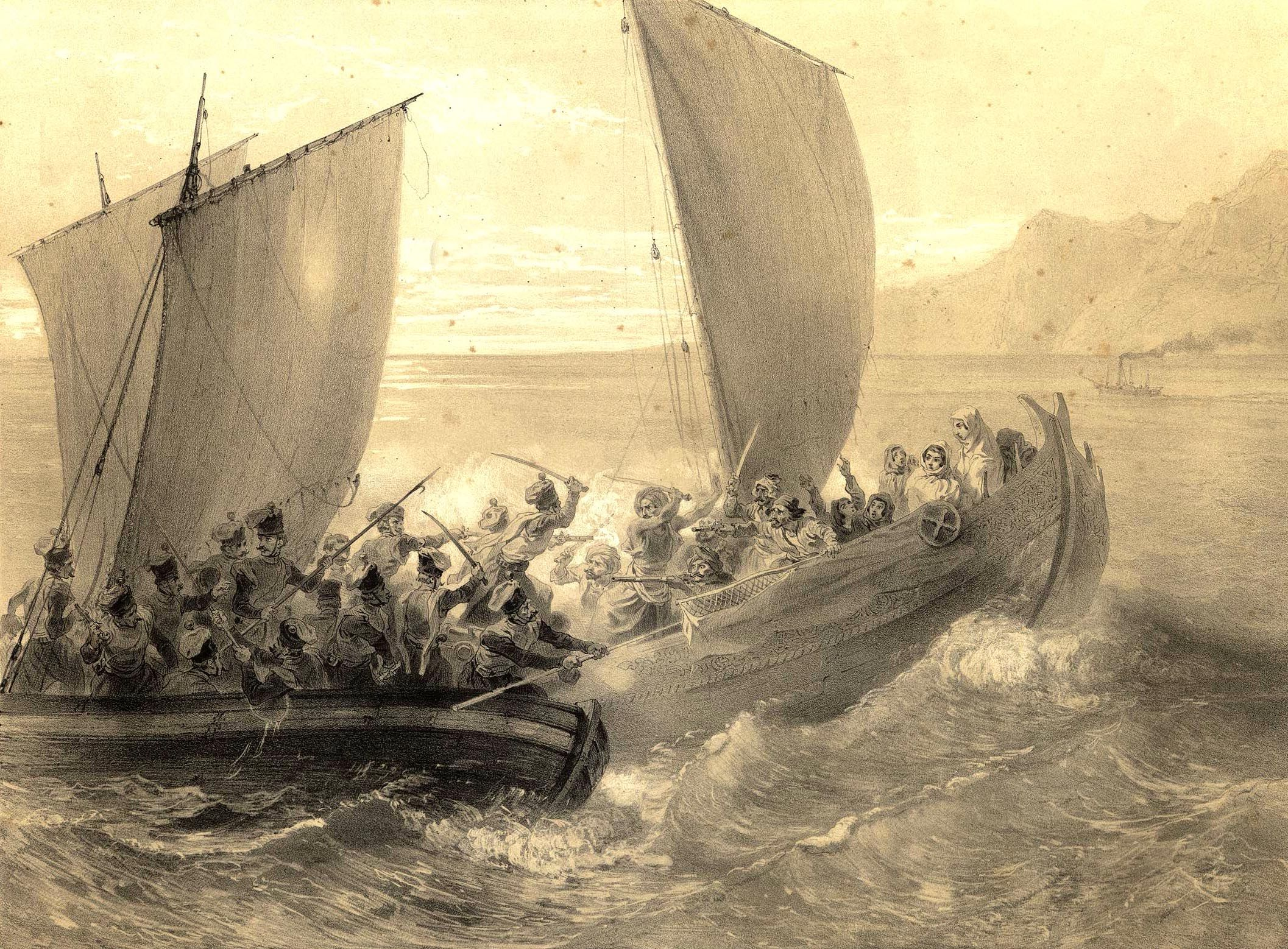 Painting by Grigory Gagarin. Azov Cossacks fighting Turkish corsairs (pirates) in the Black Sea.